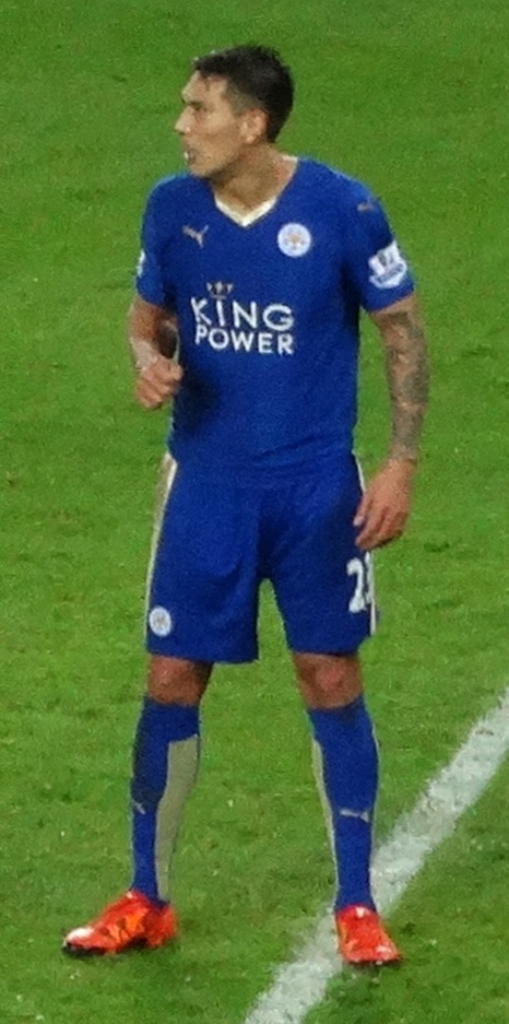 Leicester 2 Chelsea 1